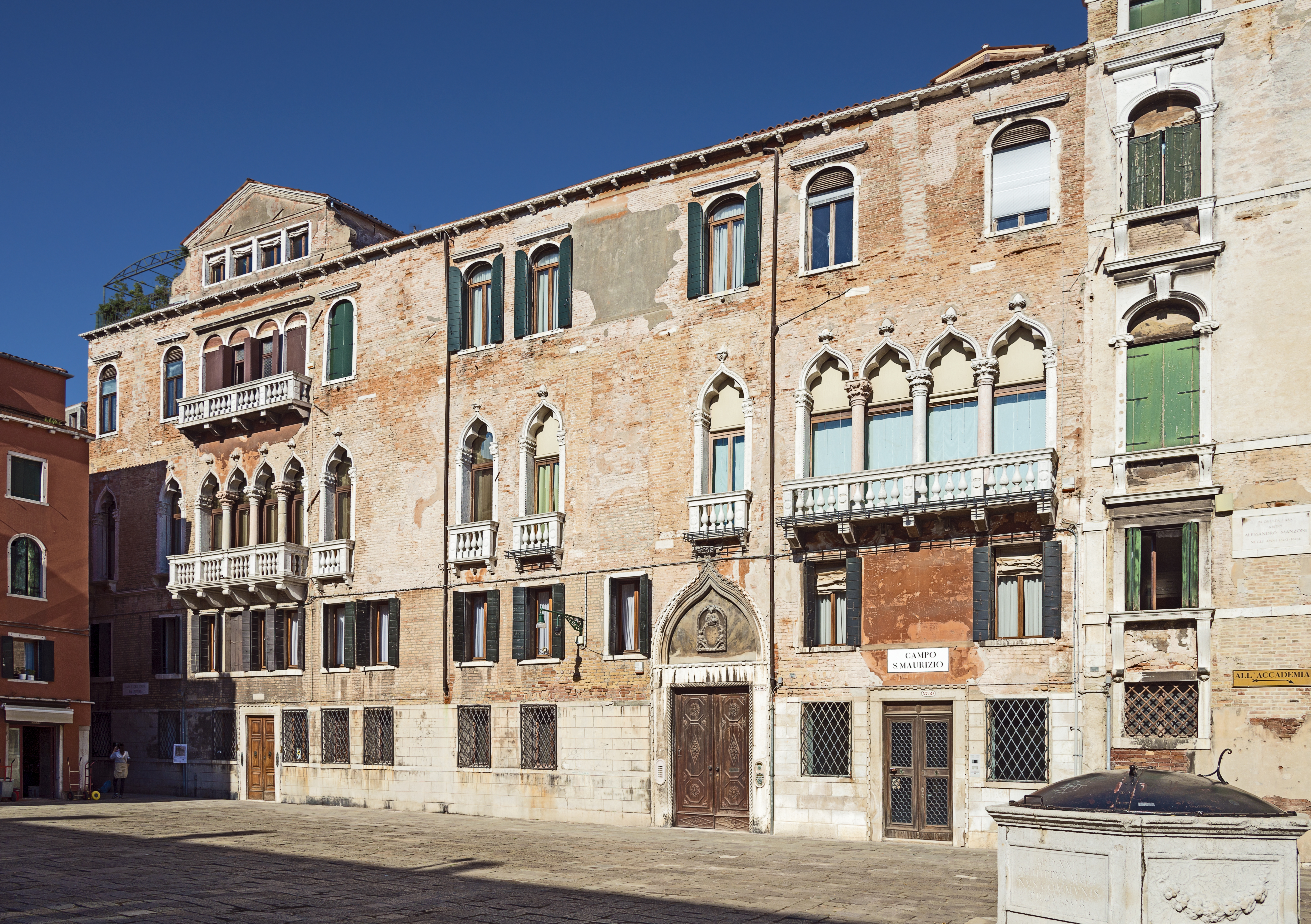 Palazzo Molin on campo San Maurizio, San Marco, Venice.